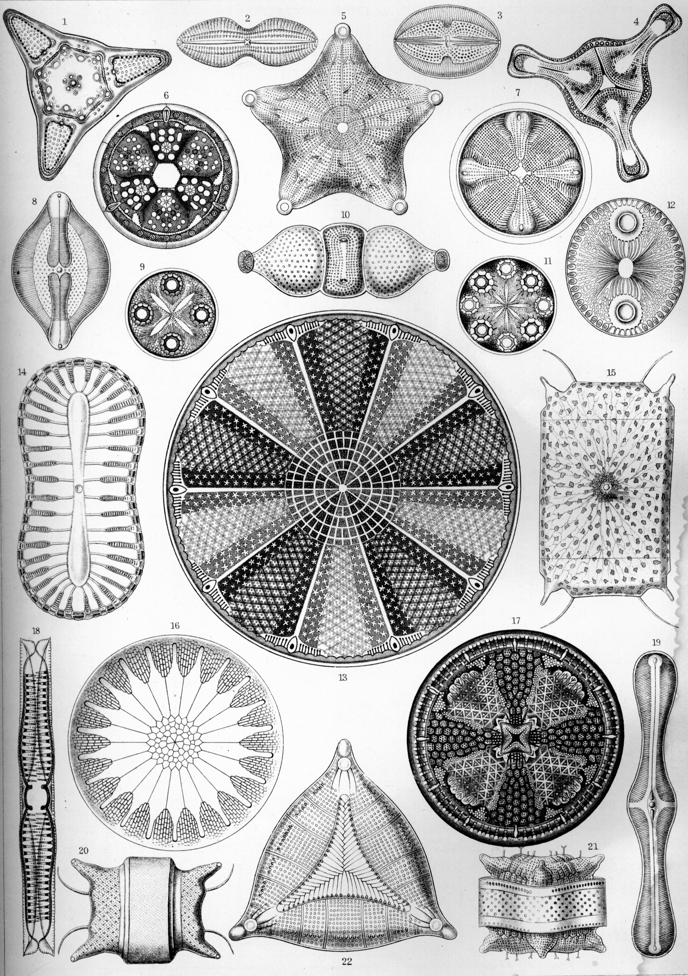 Enlarge image for index to numbers. Triceratium digitale (Brun) = Triceratium digitale J.-J.Brun?, top view Navicula lyra (Ehrenberg) = Lyrella lyra (Ehrenberg) Karajeva, top view Navicula excavata (Greville) = Lyrella excavata (Greville) D.G.Mann, top view Triceratium mirificum (Brun) = Triceratium mirificum J.-J.Brun?, top view Triceratium pentacrinus (Wallich) = Triceratium pentacrinus (Ehrenberg) G.C.Wall., top view Actinoptychus constellatus (Brun) = Actinoptychus constellatus J.-J.Brun, top view Aulacodiscus mammosus (Greville) = Aulacodiscus mammosus R.K. Greville, top view Navicula Wrightii (Meara) = Navicula wrightii O'Meara, top view Auliscus crucifer (Brun) = Auliscus sp.?, top view Biddulphia pulchella (Gray) = Biddulphia biddulphiana (J.E.Smith) Boyer, top view Auliscus craterifer (Brun) = Auliscus johnsonianus var. craterifer J.-J.Brun, top view Auliscus mirabilis (Greville) = Auliscus mirabilis R.K.Greville, top view Aulacodiscus Grevilleanus (Norman) = Aulacodiscus grevilleanus G.Norman ex R.K.Greville, top view Surirella Macraeana (Greville) = Surirella macraeana R.K.Greville, top view Denticella regia (Max Schultze) = Odontella regia (Schultze) Simonsen, protoplast Asterolampra eximia (Greville) = Asterolampra eximia Greville, top view Actinoptychus heliopelta (Brun) = Actinoptychus heliopelta var.? A.Grunow, top view Plagiogramma barbadense (Brun) = Rutilaria barbadensis (Ralfs) Rataboul & Brun, top view Pinnularia Mülleri (Haeckel) = Pinnularia sp.?, side view Biddulphia granulata (Smith) = Odontella granulata (Roper) R.Ross, side view Triceratium pentacrinus (Wallich) = Triceratium pentacrinus (Ehrenberg) G.C.Wall., side view Triceratium moronense (Greville) = Triceratium moronense Greville?, top view